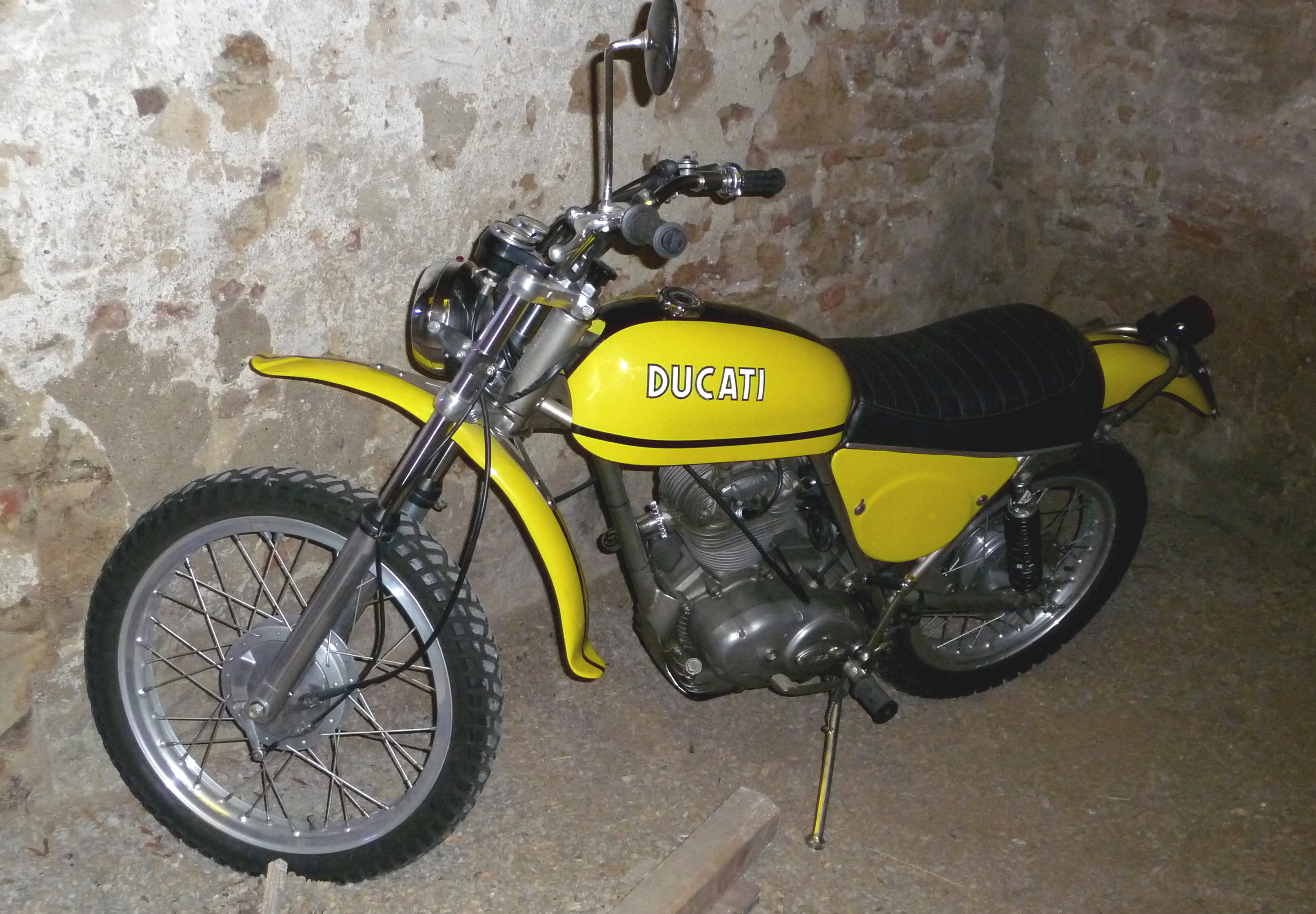 Ducati motorcycle